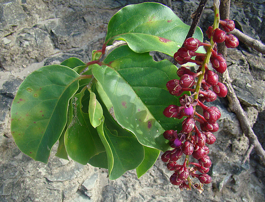 A mesoamerican and Caribbean species, here in southwestern Nicaragua. In context at